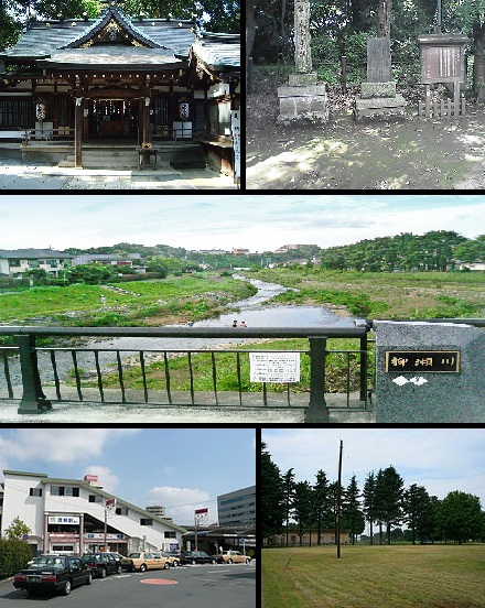 Kiyose montages